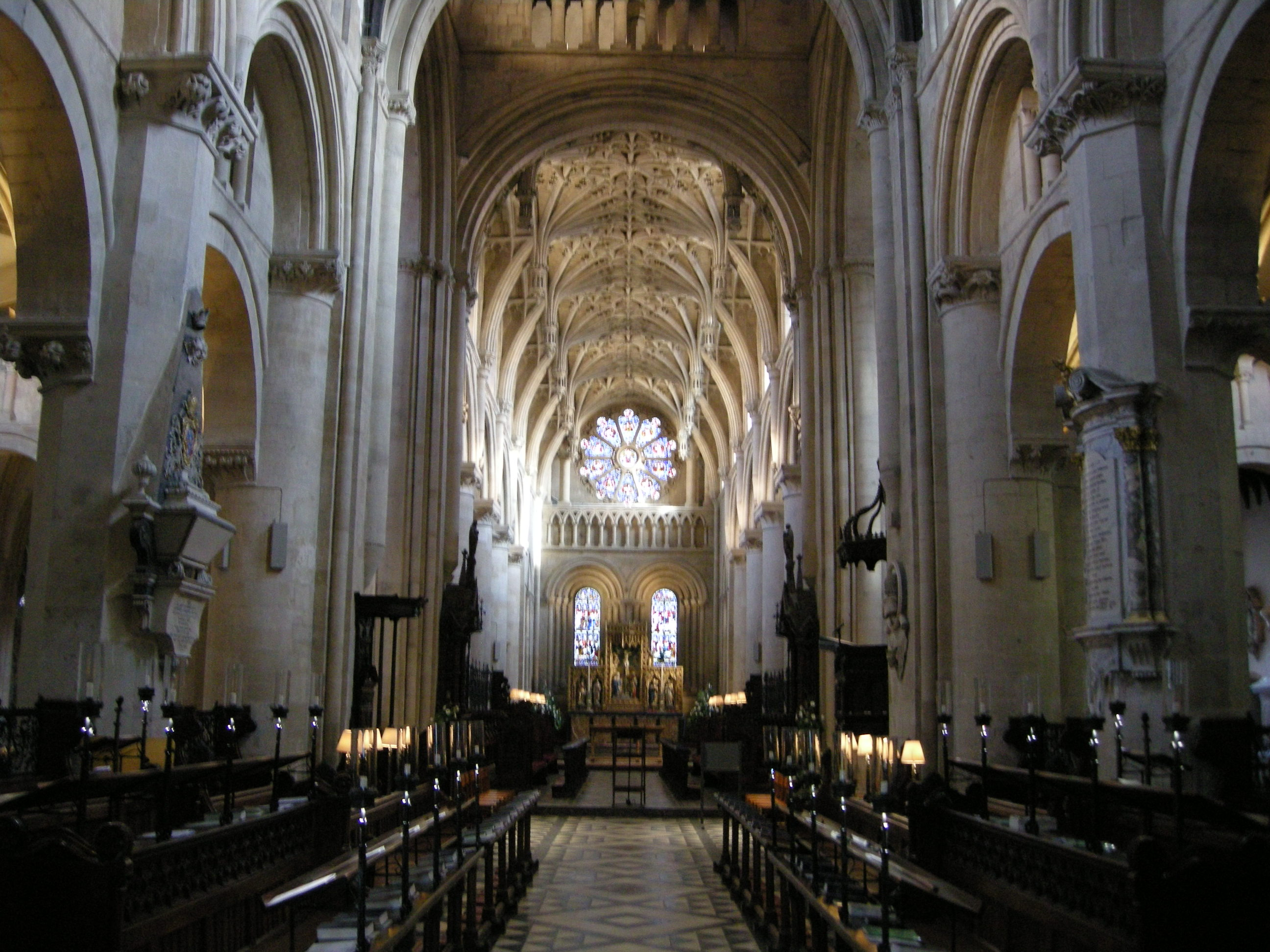 Oxford cathedral